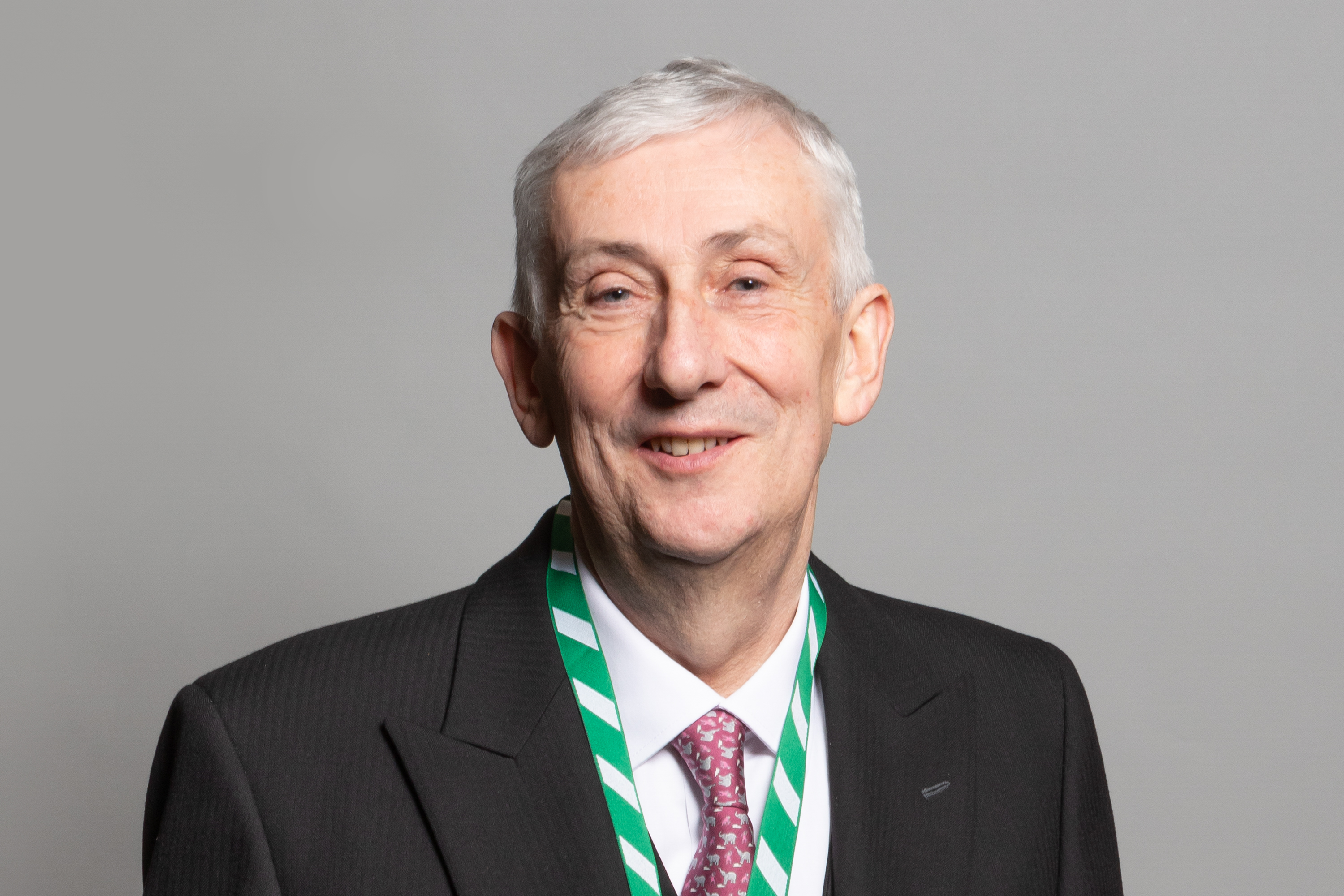 Official portrait of Rt Hon Sir Lindsay Hoyle MP 3×2 portrait of Sir Lindsay Hoyle